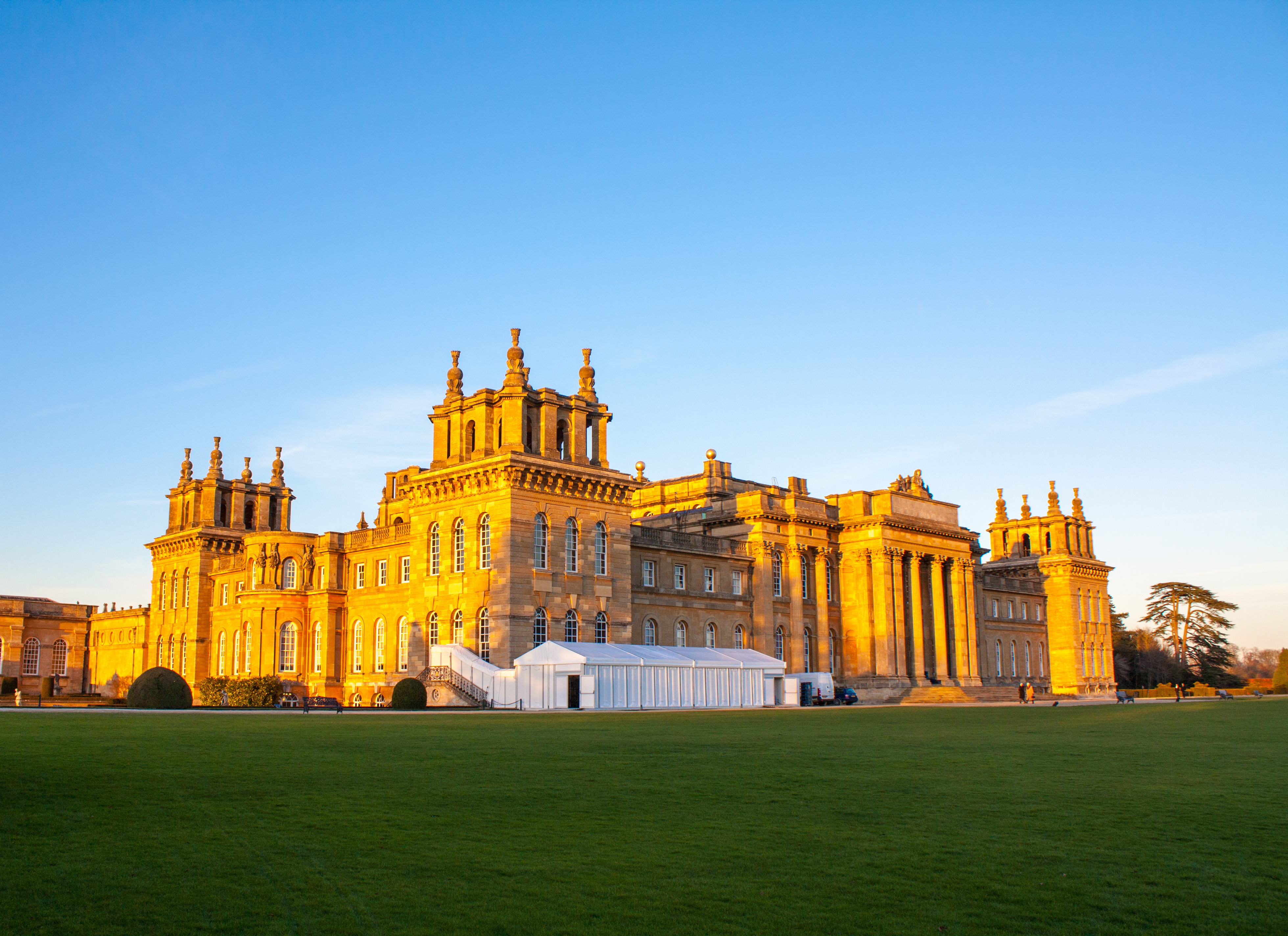 Blenheim Palace - Christmas 2012